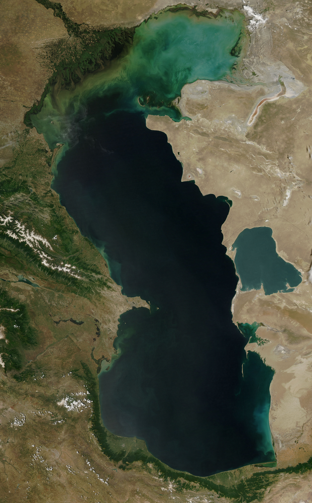 Location map of Caspian Sea N: 47,2° N S: 36° N W: 46° E E: 55° E